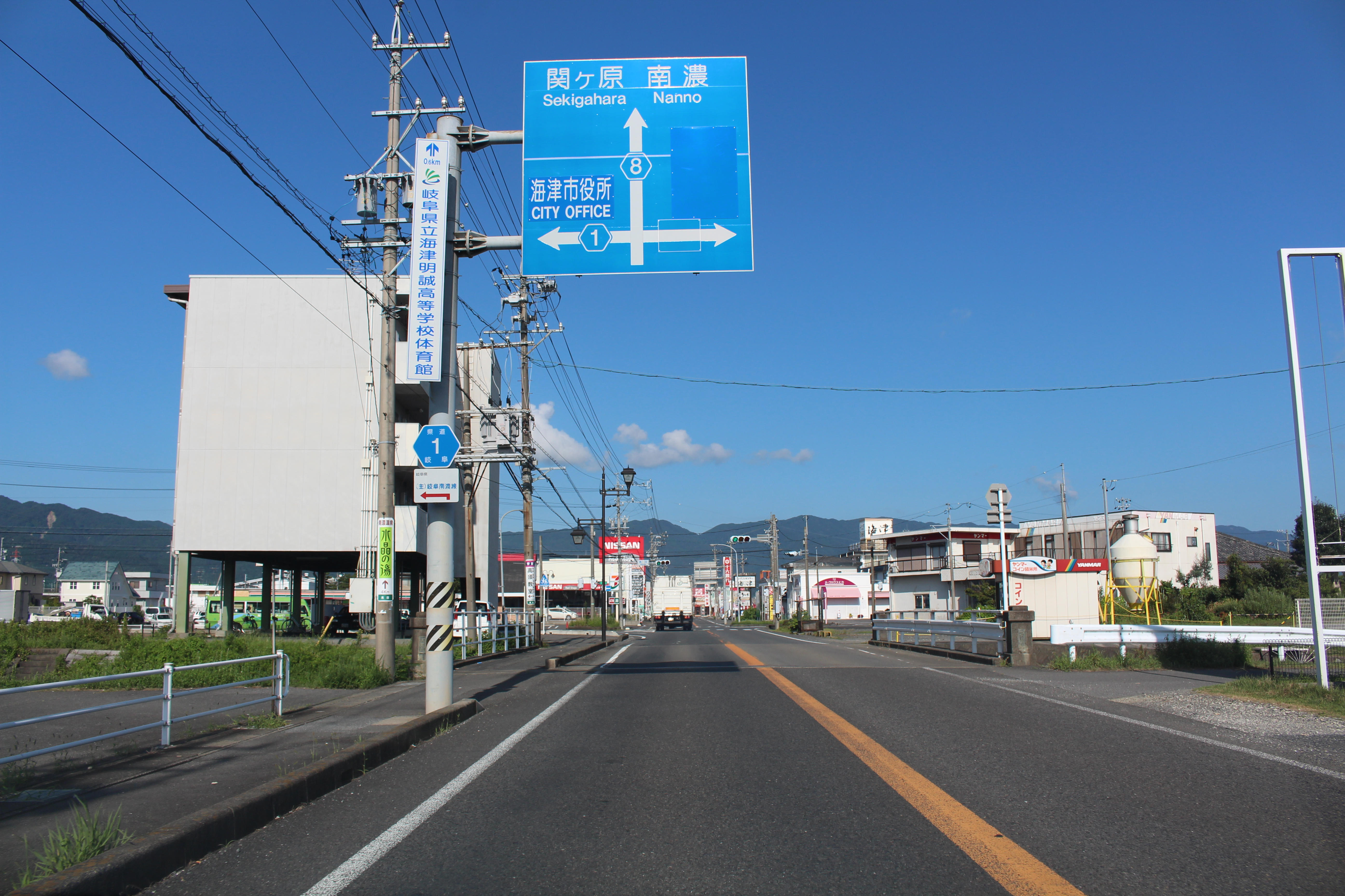 Gifu Prefectural Road Route 1 and Gifu Prefectural Road Route 8 in Manome, Kaizu, Gifu prefecture, Japan.